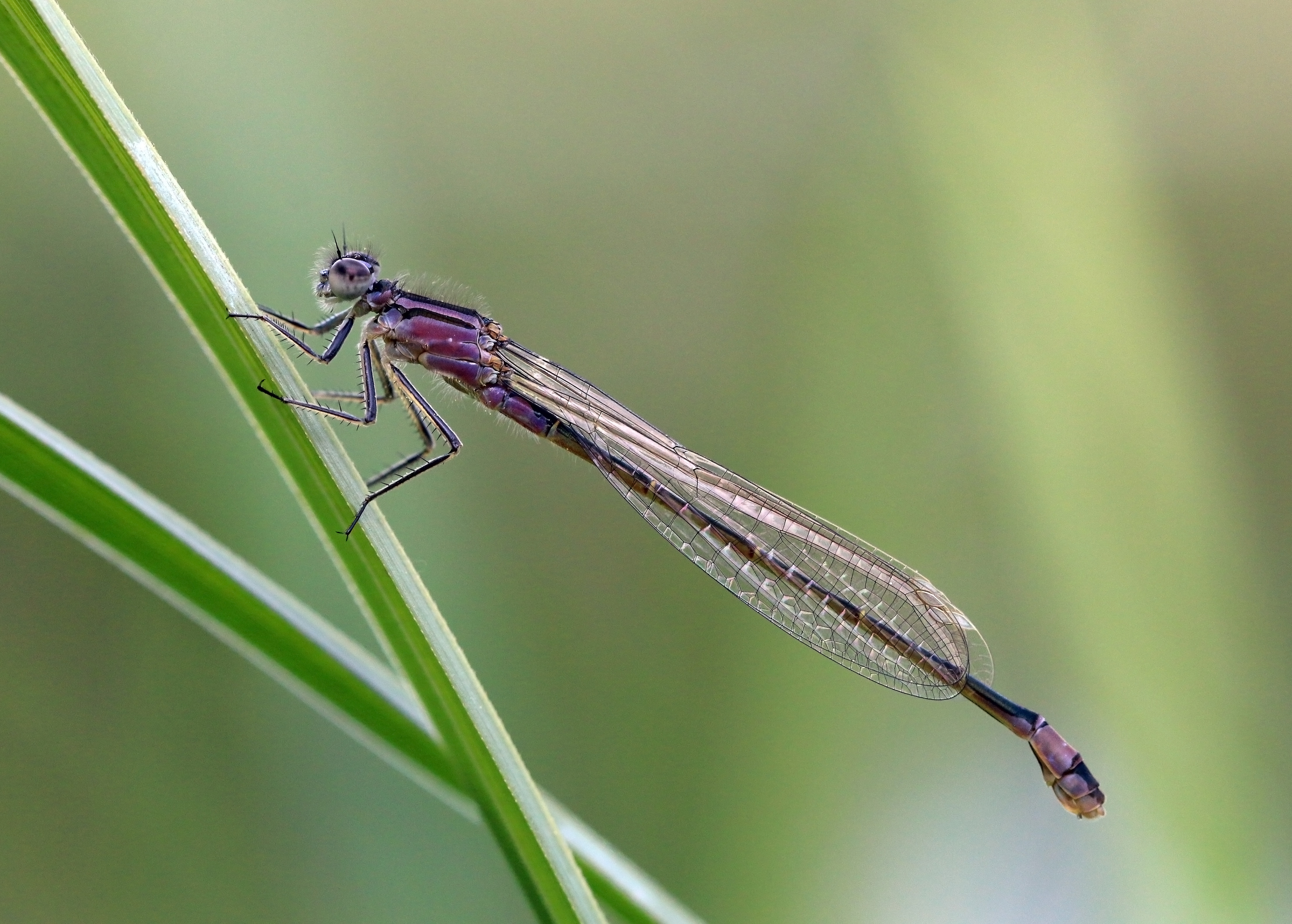 Blue-tailed damselfly (Ischnura elegans) teneral female form violacea (previously iden tified as infuscans-obsoleta), Radley Lakes, Oxfordshire